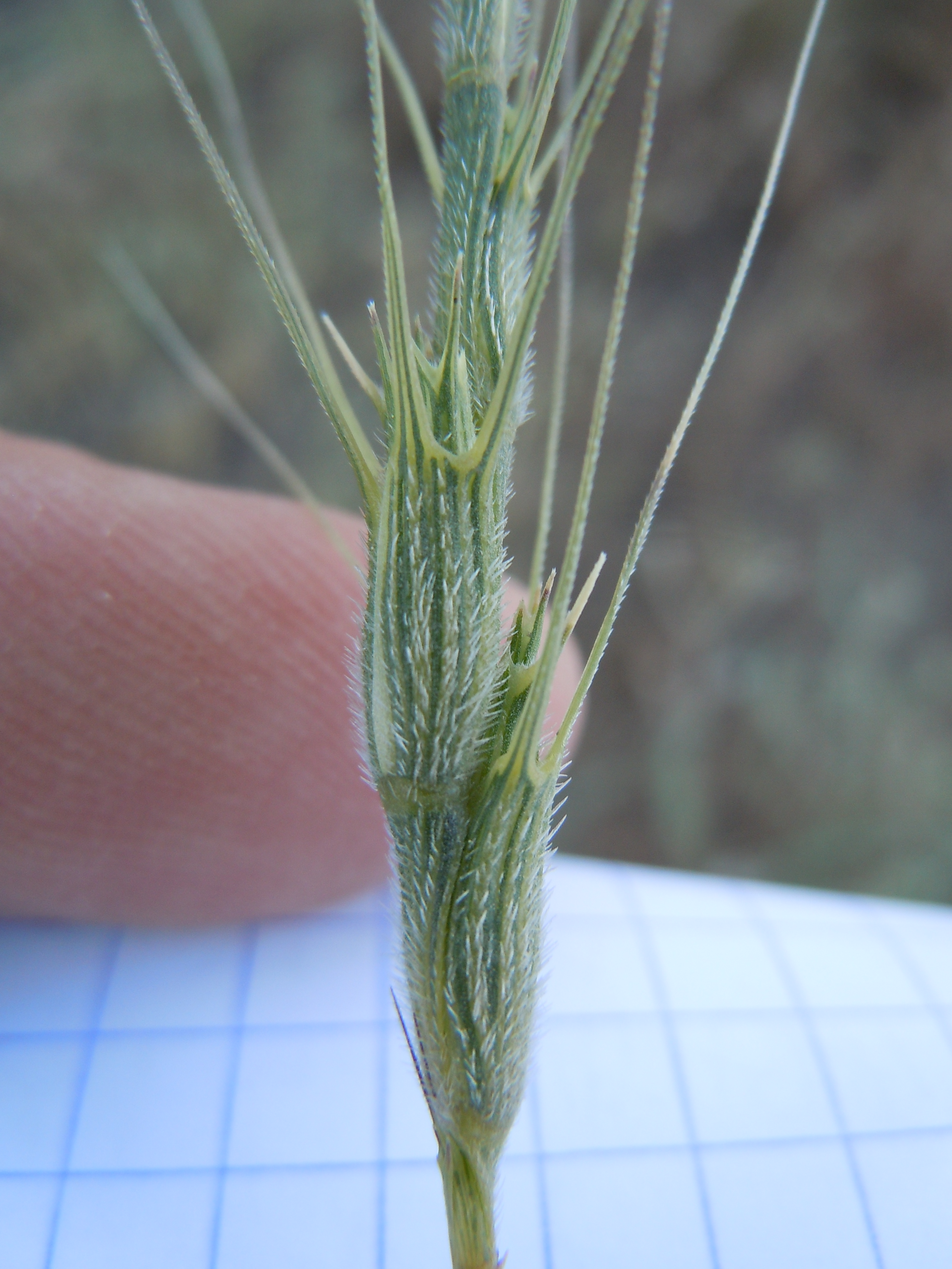 Aegilops triuncialis — Barbed goatgrass. An introduced European grass species in Nevada, occurs along roadsides only at the base of the Carson Range, and not in nearby sagebrush steppe with high native plant cover.